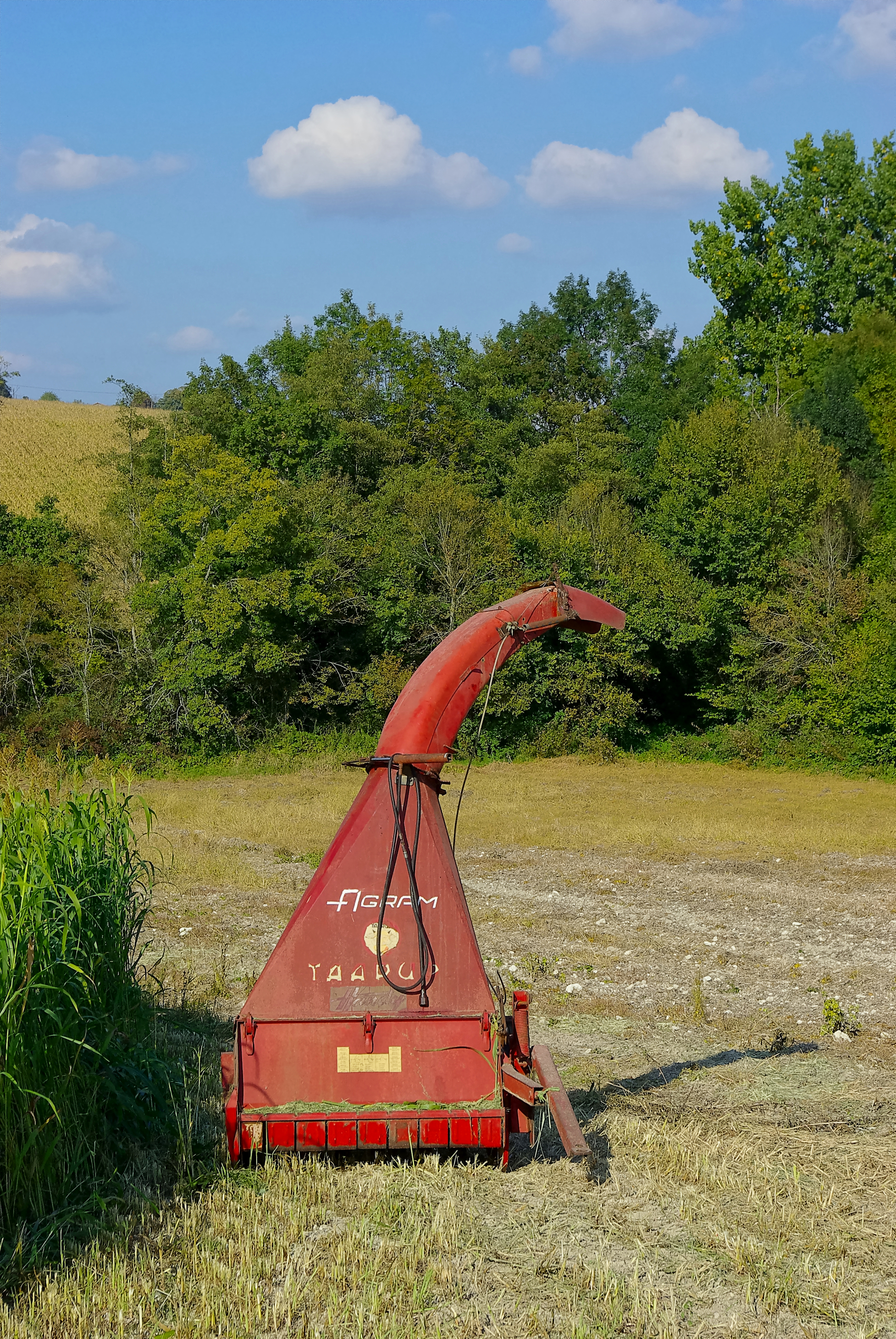 Flail type forage harvester (Agram-Taarup) in a corn field, Saint-Amant, Charente, France.